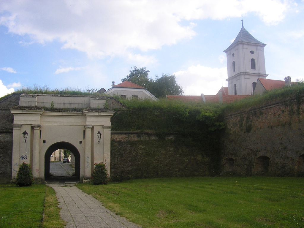 Water Gate (Vodena vrata) of the Tvrđa fortress in Osijek, Croatia